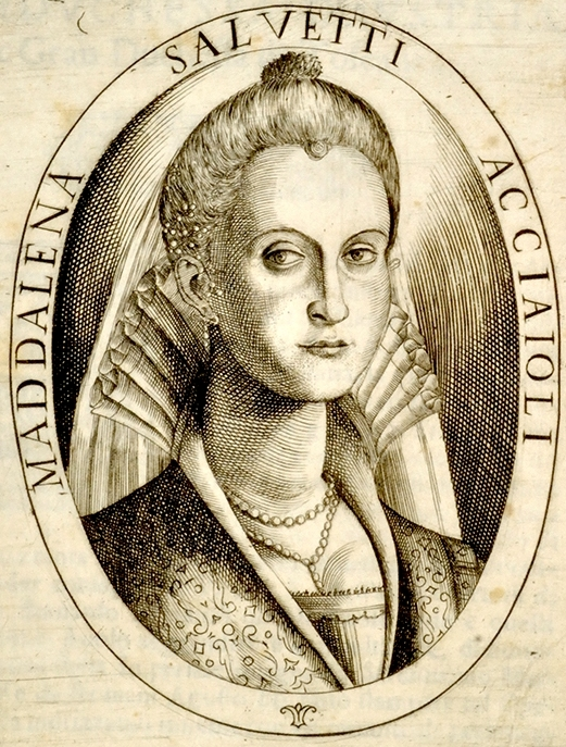 Maddalena Salvetti Acciaiuoli (1557-1610) italian poet